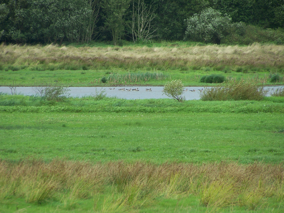 The Dankmarshäuser Rhäden nature reserve is a wildlife habitat.